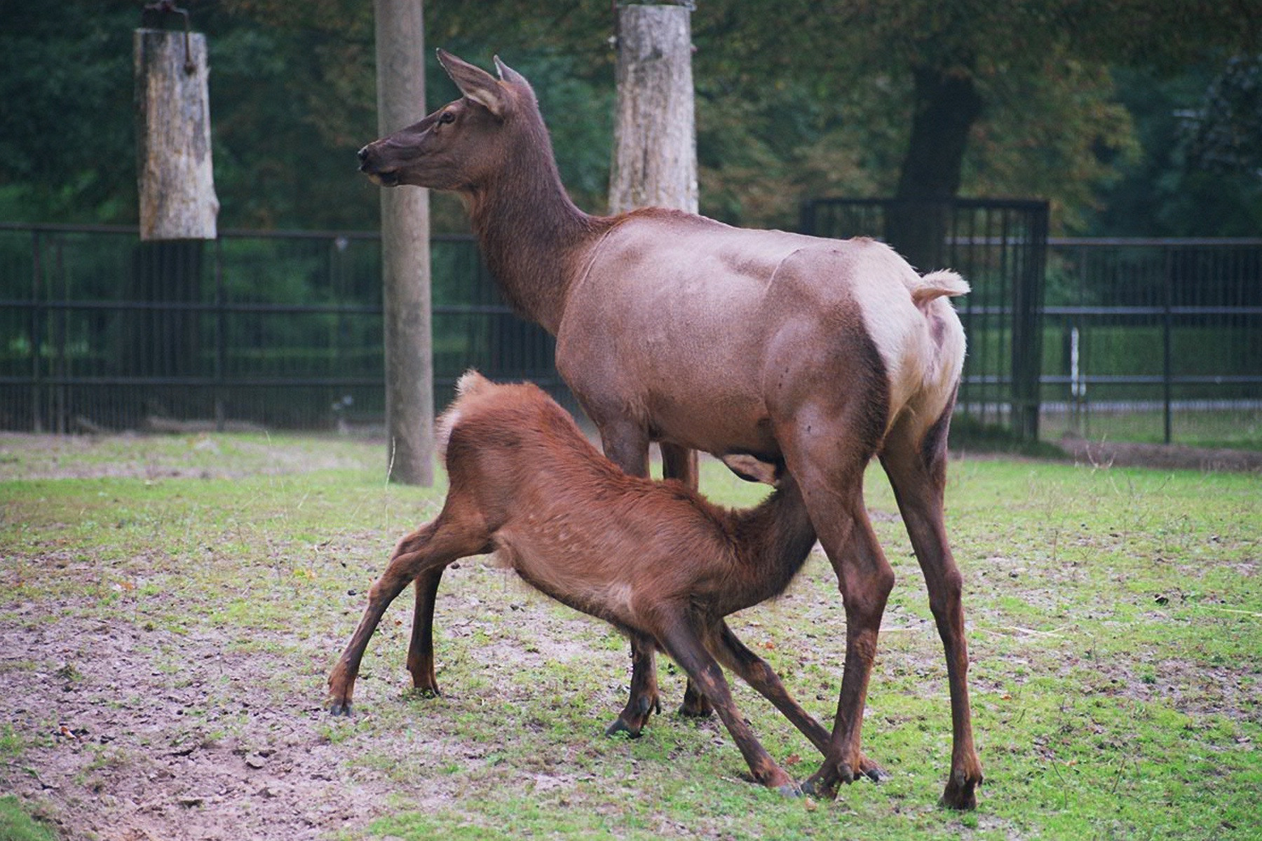 Rostock Zoo: Young elk nursing (Cervus elaphus canadensis)